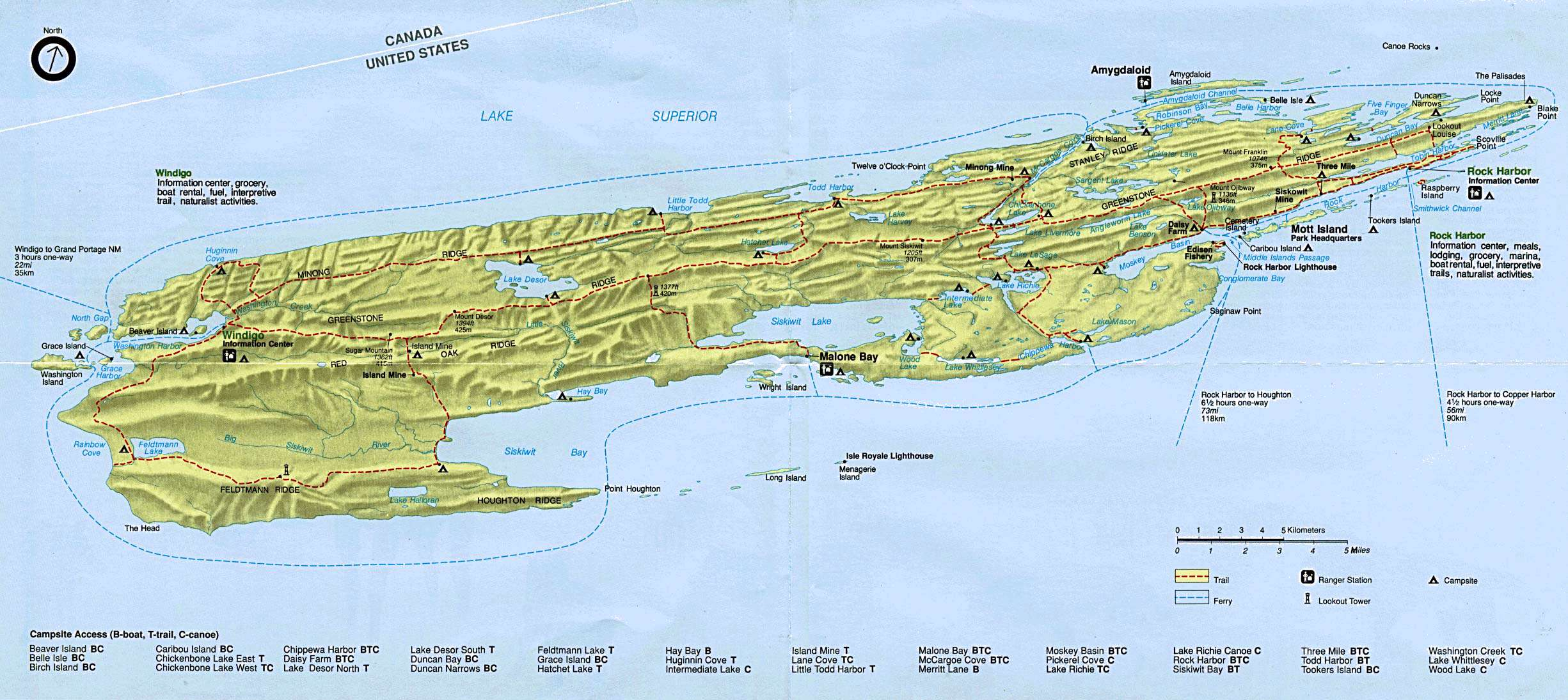 Official National Park Service map of Isle Royale National Park. In northern Lake Superior, Keweenaw County, Upper Michigan.